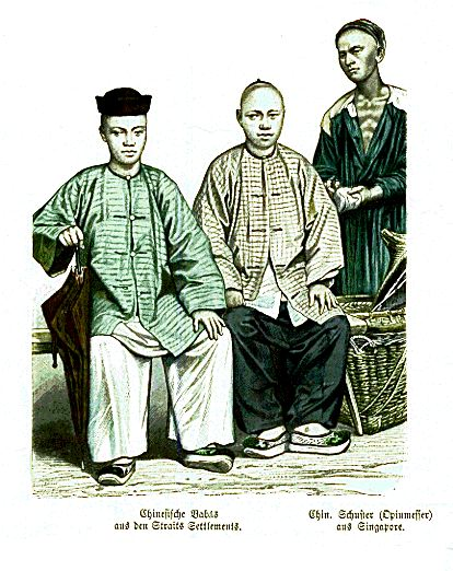 Babas from the Straits Settlements: a shoemaker (opium eater) from Singapore.